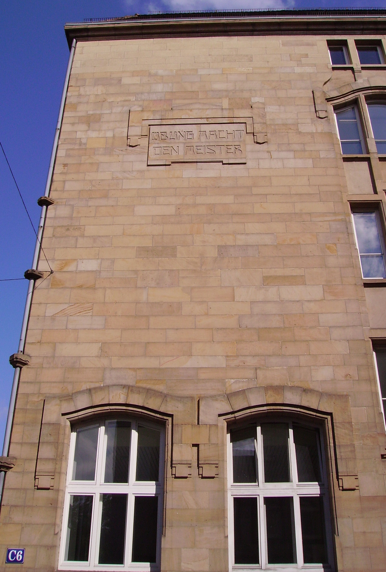 school of Mannheim, Germany